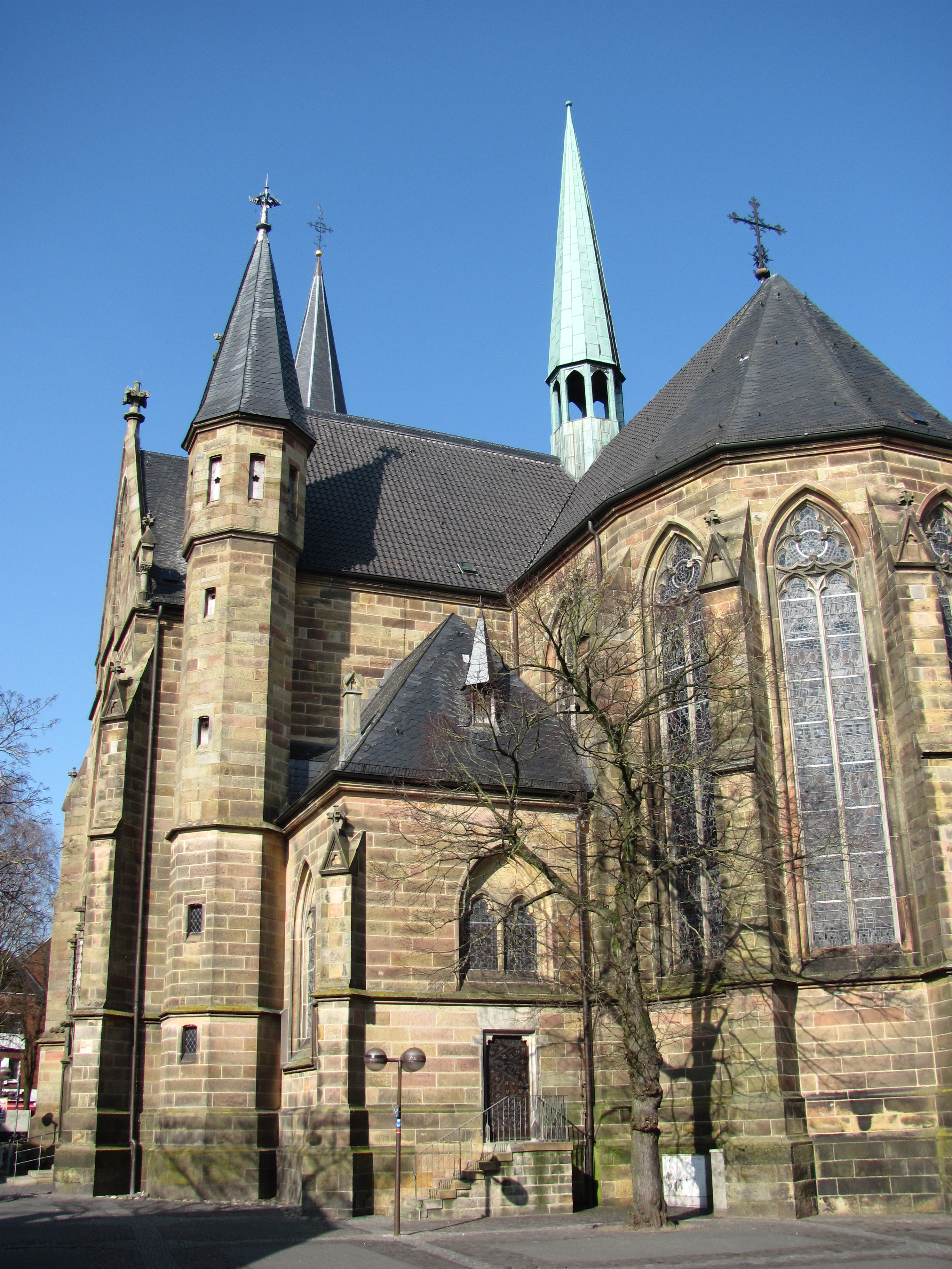 St. Lamberti Church, Ochtrup, North Rhine Westphalia, Germany